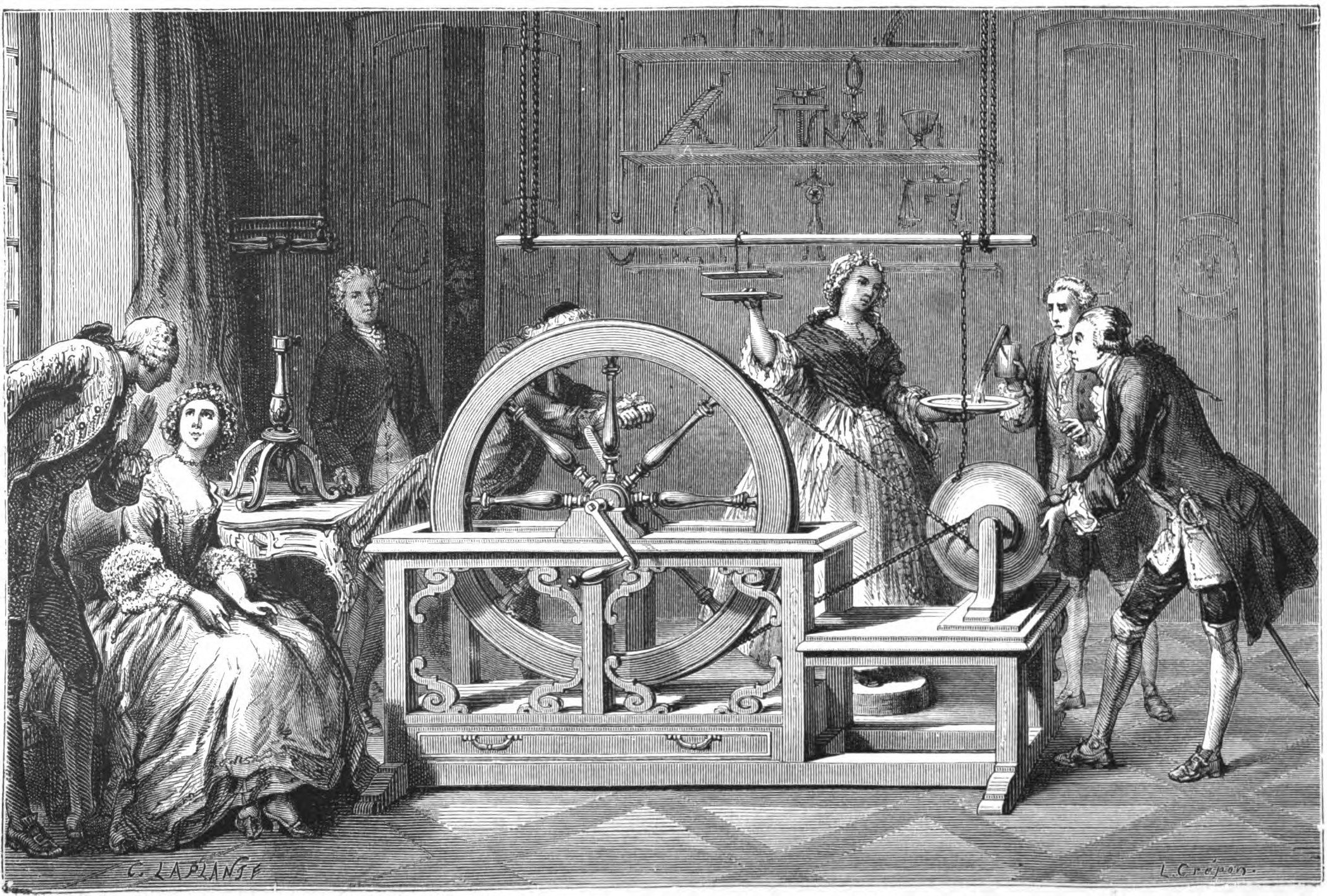 Drawing of an electrostatics experiment by English scientist Francis Hauksbee (or Hawksbee)(1660-1713) using an early electrostatic generator of his design, drawn by French clergyman and scientist Jean-Antoine Nollet, from his 1767 book Leçons de Physique. The electrostatic generator (right) consisted of a hollow ball of glass rotated by the man turning the crank. The friction of a man's hands on the ball created a charge of static electricity, which was conducted by the chain to the metal bar suspended by insulating silk cords. This experiment apparently demonstrated electrostatic induction. The woman (center) standing on a pad which insulated her from the ground, holding a metal plate in her right hand near another one hanging from the bar, had an electric charge induced in her body, which was communicated to the metal serving plate she is holding in her left hand. The man at right is performing some experiment with the charge; possibly demonstrating that fine powder sprayed on the plate is repelled into the air. Alternatively, the flask he is holding may be a Leyden jar which he is charging from the plate. The drawing illustrates how scientific research was conducted during the Enlightenment, as a cultured pastime of the genteel educated elite, performed in drawing rooms and salons, with women taking part.